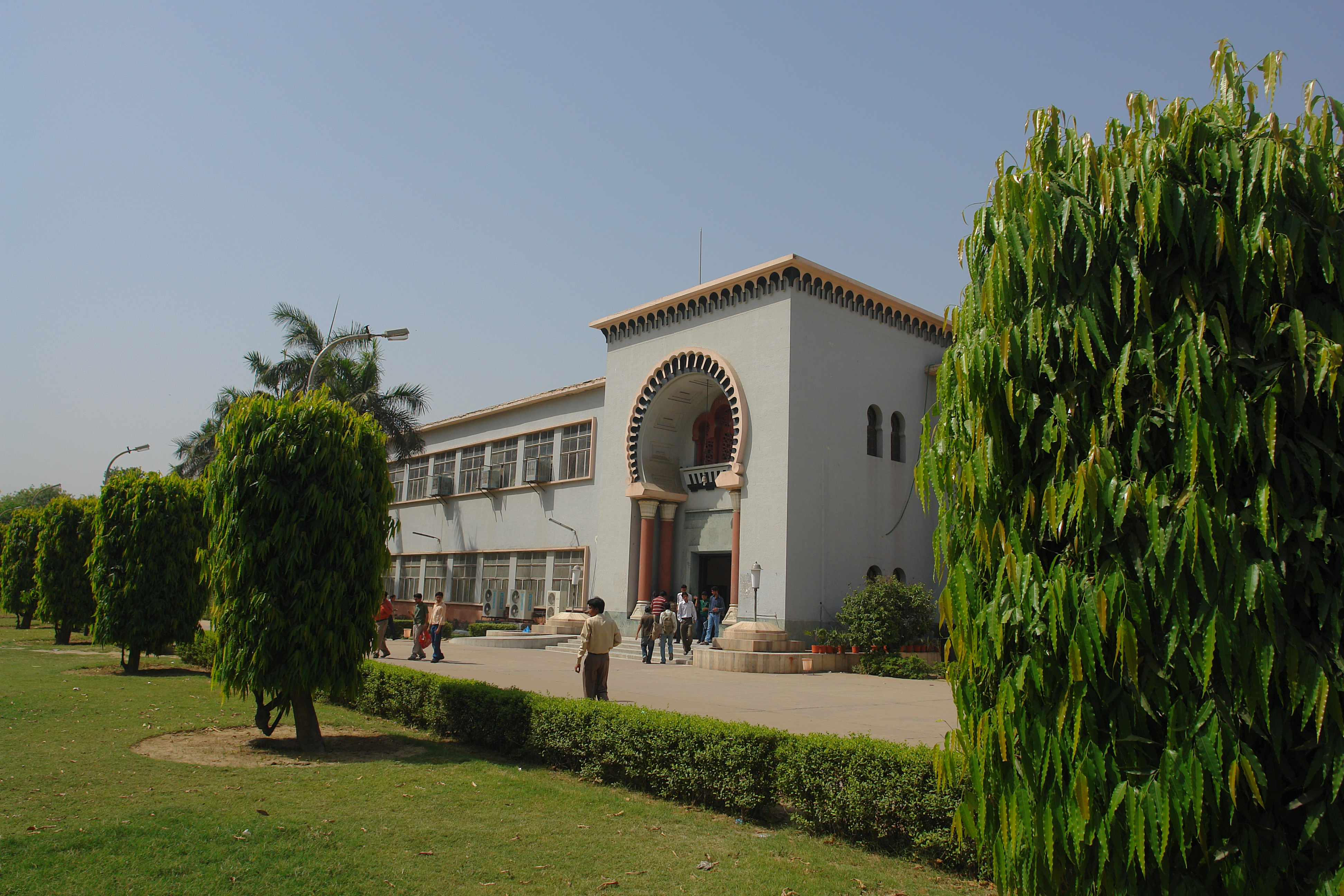 Maulana Azad Library, Aligarh Muslim University, India